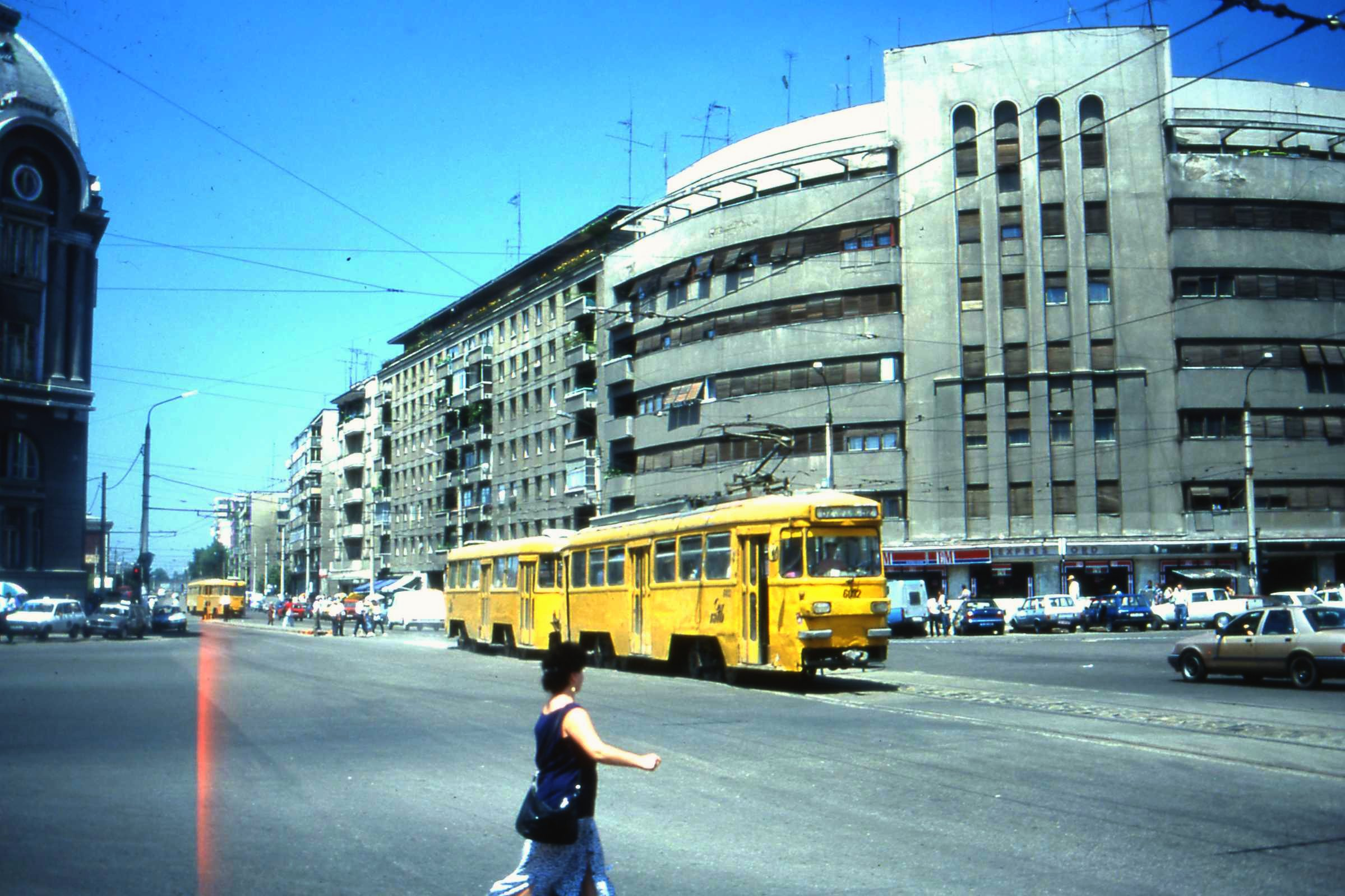 Some light must have entered the camera. Tram 6032 in front of a portion of Bucharest's impressive art deco/modernist architecture. A wonderful web-site on Bucharest's public transport is worth reading. It must be a difficult task to draw everything together in such a large city. Well done to the author. In the picture an Ep/V3A tram which type seems to have vanished from the capital's streets. More pictures of the EP/V3A tram here